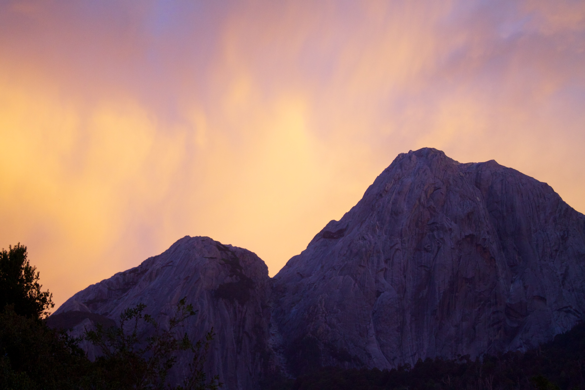 We got a real treat with sunset this night, the clouds surrounding the valley going rich yellow and orange before deepening to pinks, purples and reds. Spectacular.